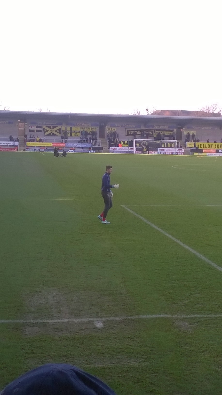 Shrewsbury goalkeeper Jayson Leutwiler warms up at Burton Albion's Pirelli Stadium